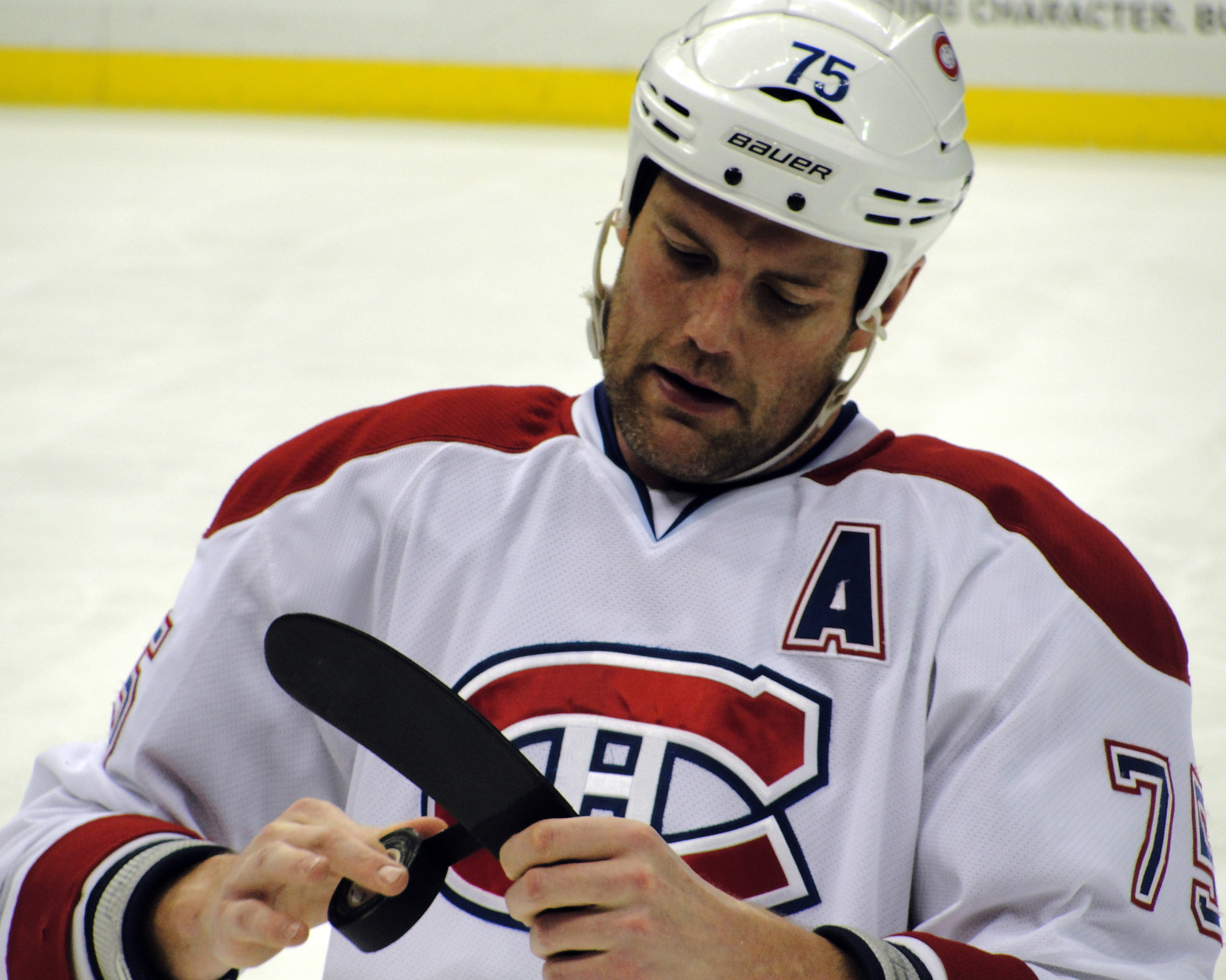 Hal Gill tapes his stick during a game against the Pittsburgh Penguins, January 20, 2012 at Consol Energy Center in Pittsburgh, PA.